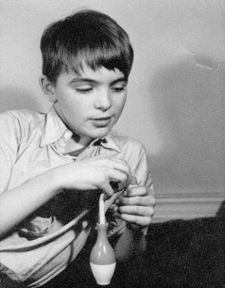 Toby Philpott, future Jabba the Hutt puppeteer, experimenting with magic as a child.